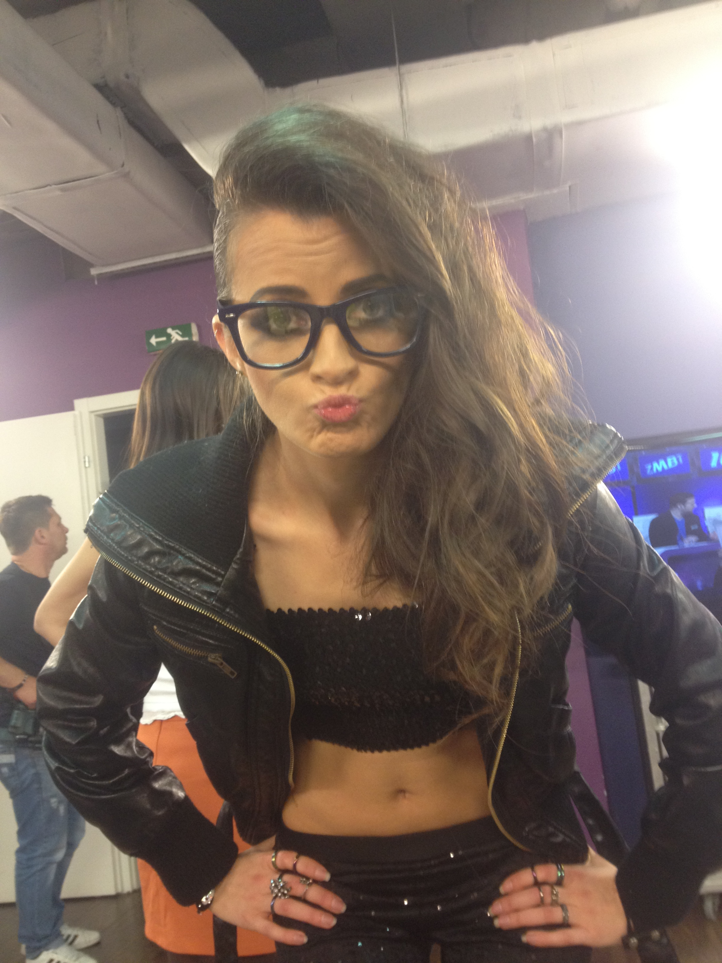 This is Dzeny from Bosnian Idol top 19 show, feb 21st 2014!!